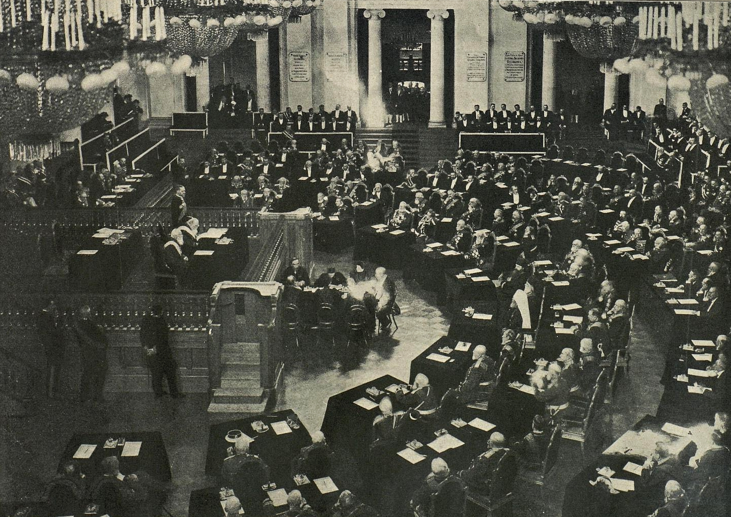 State Council of Imperial Russia, First session, 27.04.1906